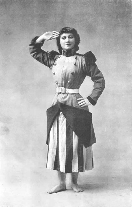 'Miss Kitty Loftus as 'Trilby' - The Sketch, 22 January 1896, pg. 659